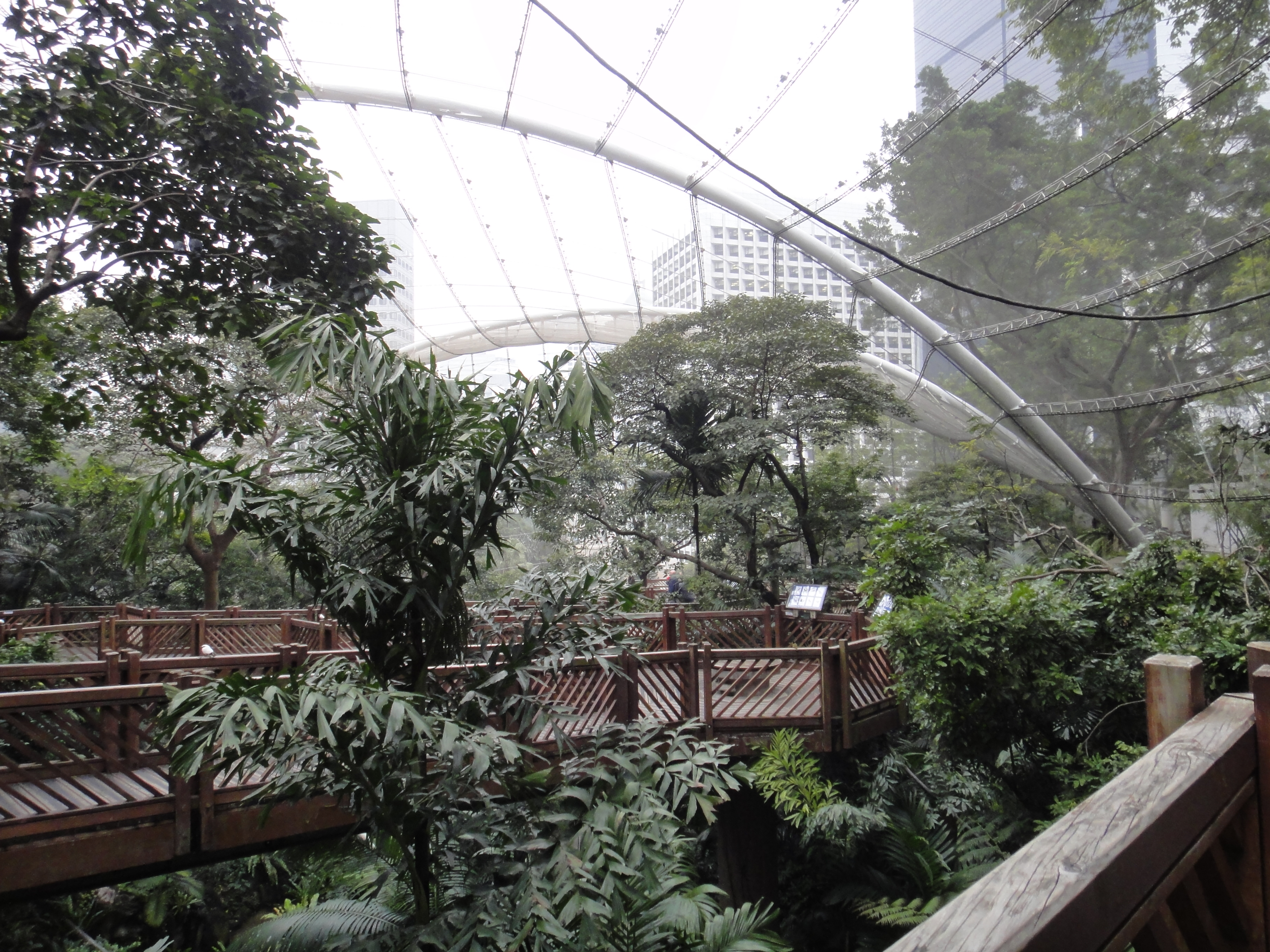 Edward Youde Aviary inside